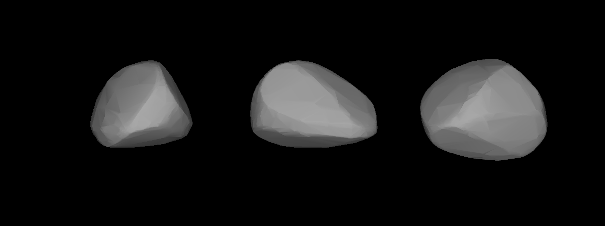 A three-dimensional model of 166 Rhodope that was computed using light curve inversion techniques.